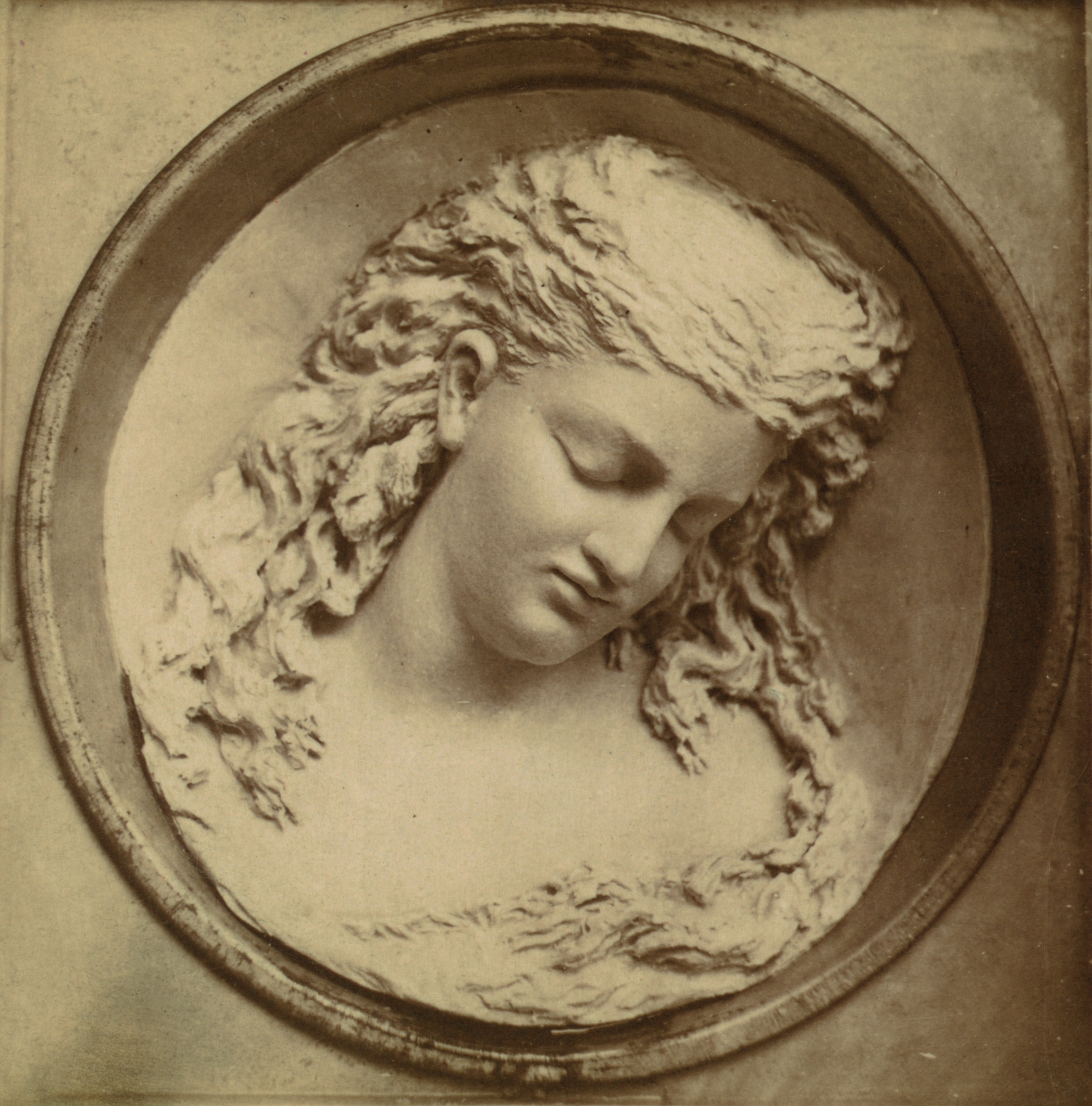 "The Dreaming Iolanthe", a character in the play "King René's Daughter" (Kong Renes Datter) by Danish poet and playwright Henrik Hertz (1797-1870). Photograph of a bas-relief sculpture made of butter by Caroline S. Brooks (1840-1913). Caption: "1776 1876. The Dreaming Iolanthe, King Rene's daughter, from Henri Herz. A study in butter, by Caroline S. Brooks, daughter of Abel Shawk. The tools used, were a common Butter Paddle, Cedar Sticks, Broom Straws, and a Camels Hair Pencil. Sculptured on a Kitchen Table without a Model, in a Milk Pan 15 inches in diameter, and brought from Helena Ark., a distance of 2000 miles, to the Centennial. Nine pounds of Butter were used in modelling this subject."